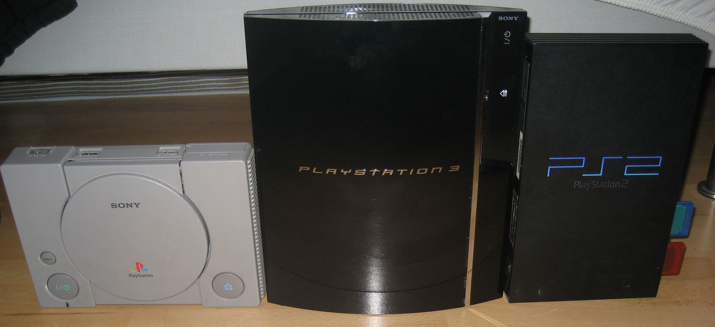 The three PlayStation consoles side by side.